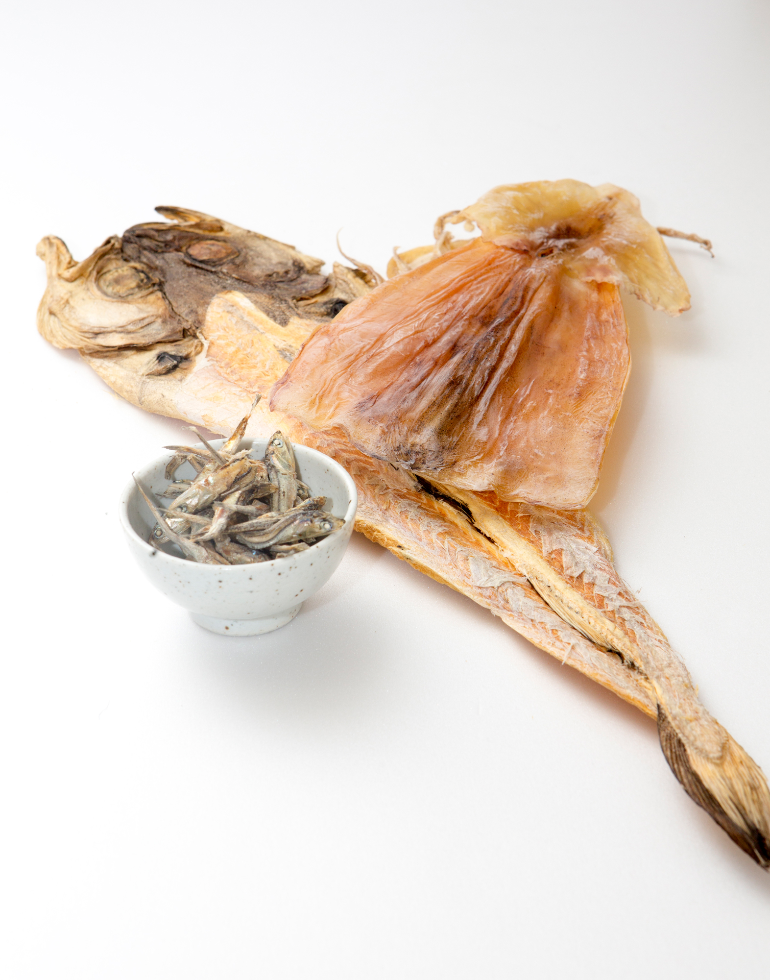 Dried seafood